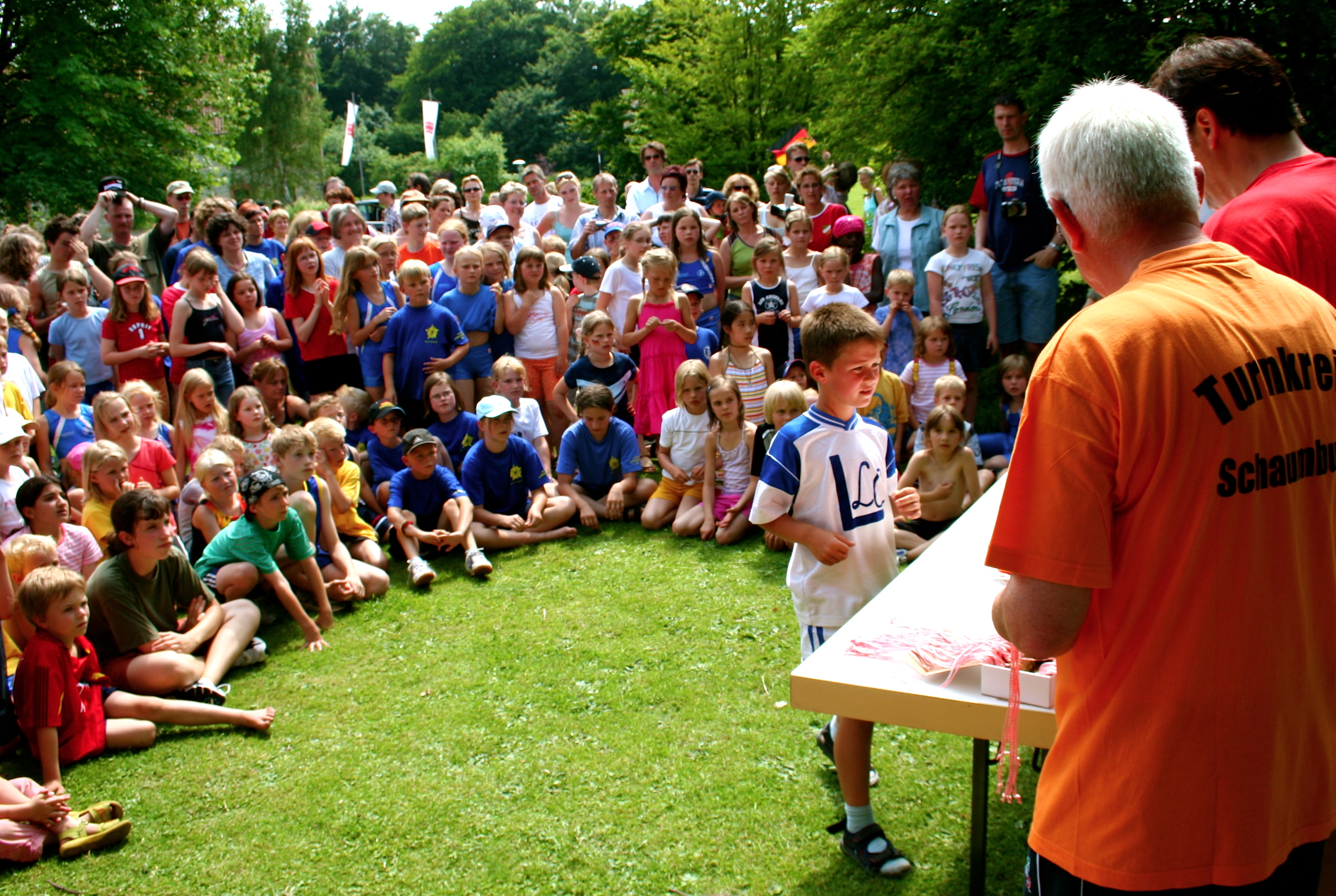 Award ceremony at Jahn Bergturnfest 2006 at Bückeberg, Lower Saxony, Germany